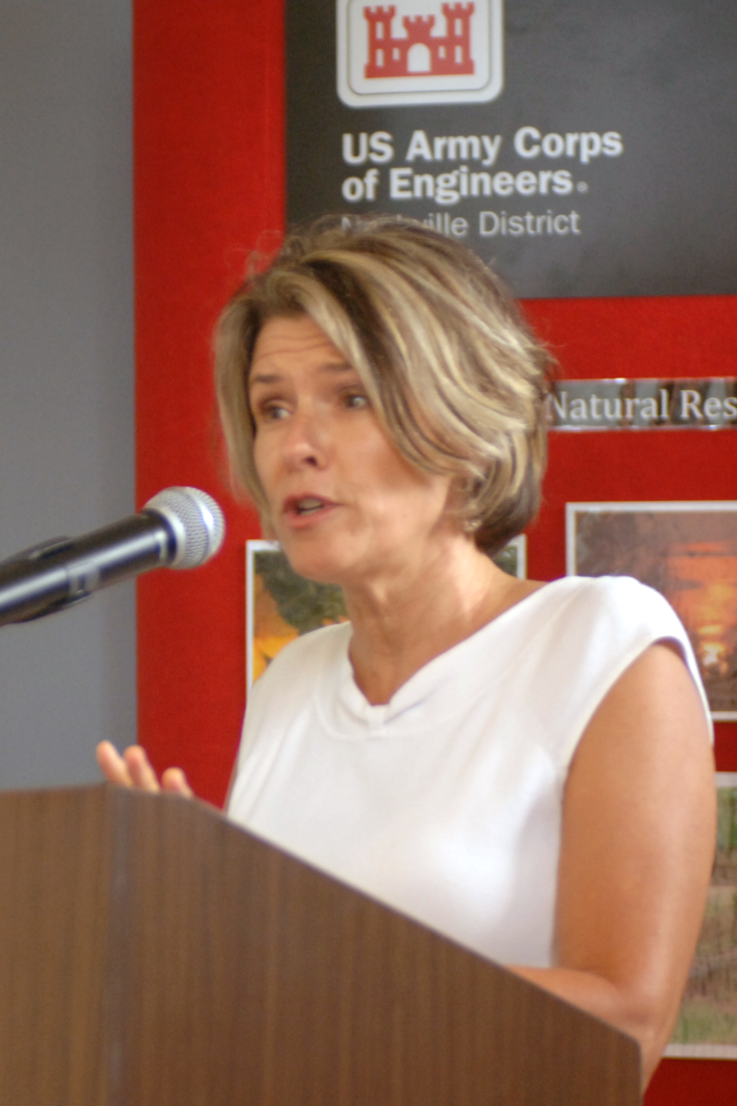 State Representative Terri Lynn Weaver thanked the Nashville District Corps of Engineers for their persistance and dedication to getting the new Cordell Hull Lake Resource Manager's Office completed and was thankful to be at the ribbon cutting ceremony held on July 20, 2012. Representative Weaver represents Tennessee State District 40.